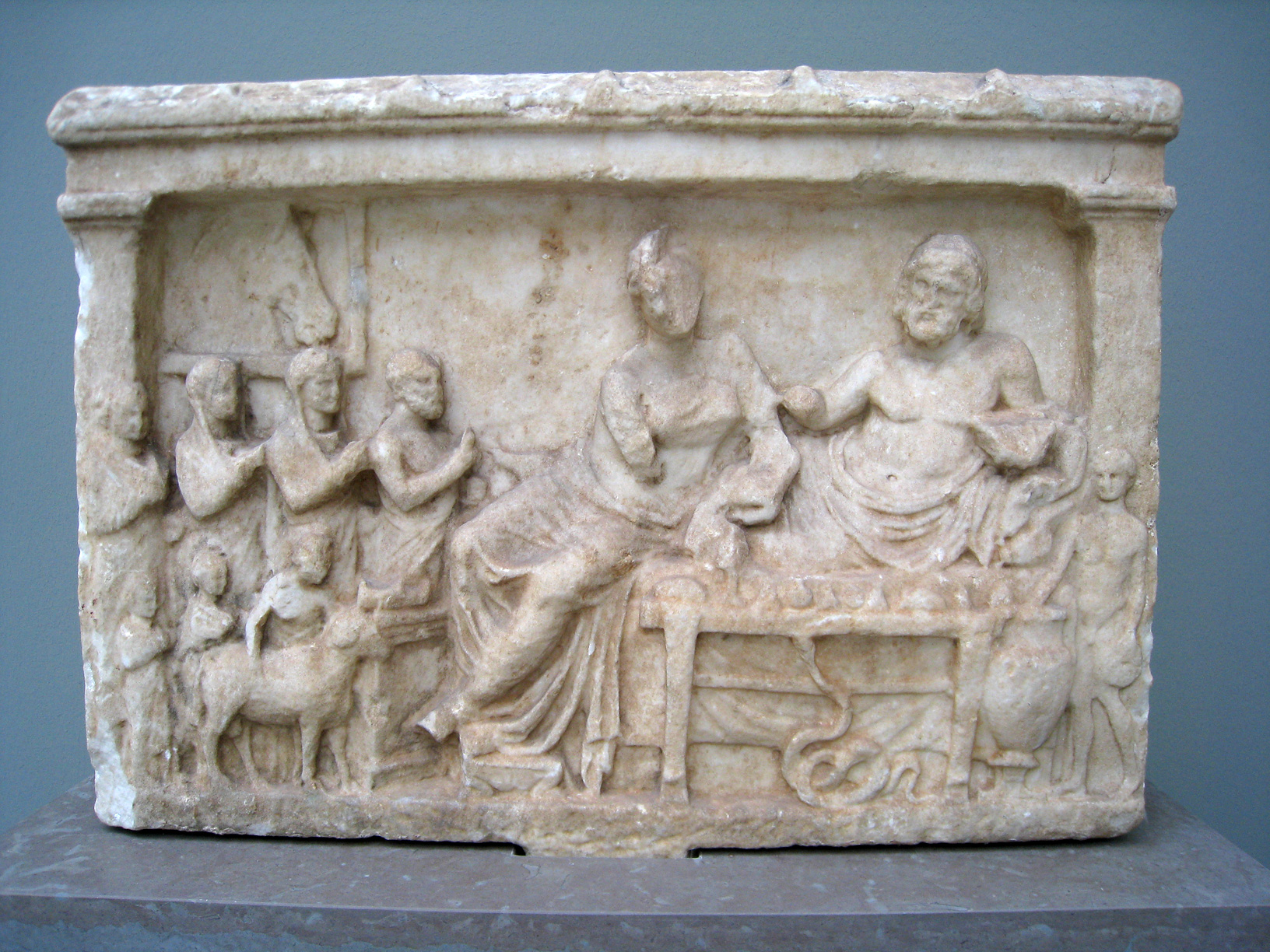 Greek marble relief c. 300 BC depicting a pious family offering a ram to two deities dining at a table in a temple. The male deity is presumed to be a deified hero, as the head of the horse in the background was a symbol of heroization. From the Ny Carlsberg Glyptotek collection, item number IN 1594.